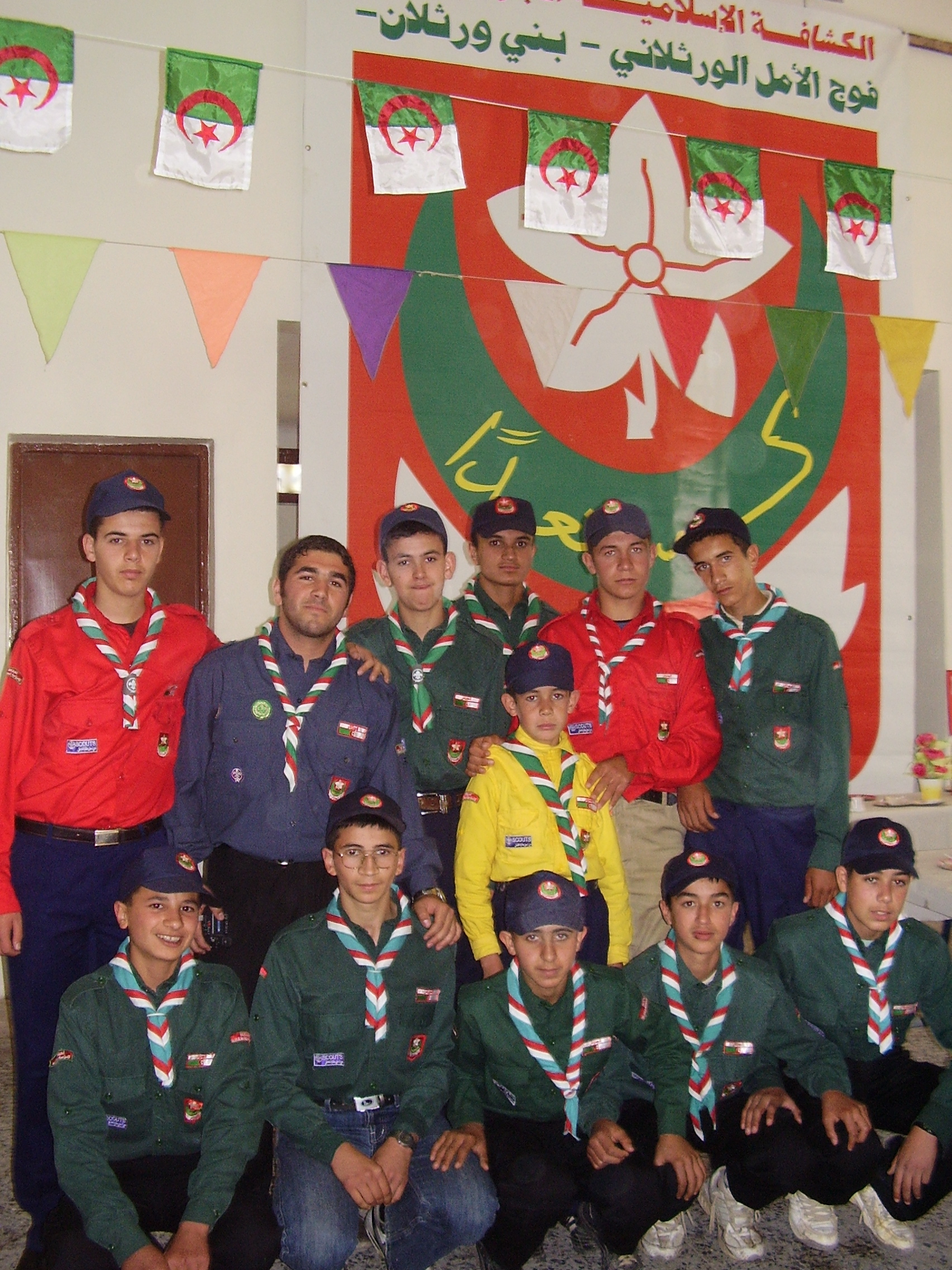 A group of Algerian scouts (Béni Ourthilane - Kabylia) - 2008